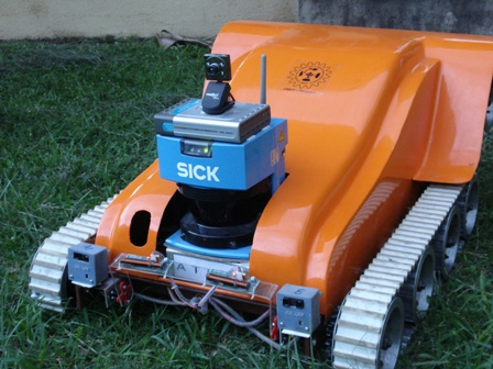 Modified all terranean robot